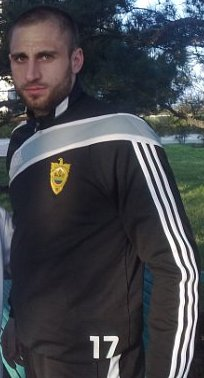 Jan Holenda